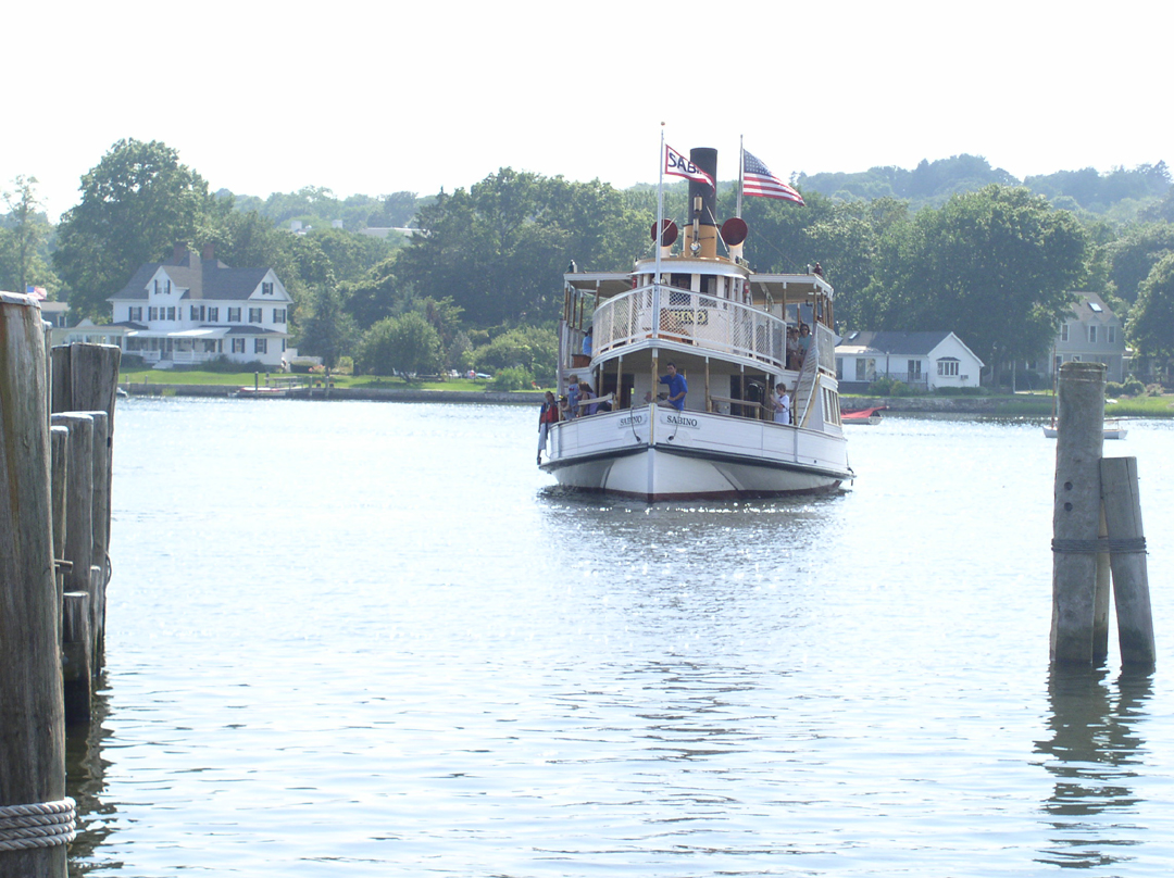 The Sabino preparing to dock.